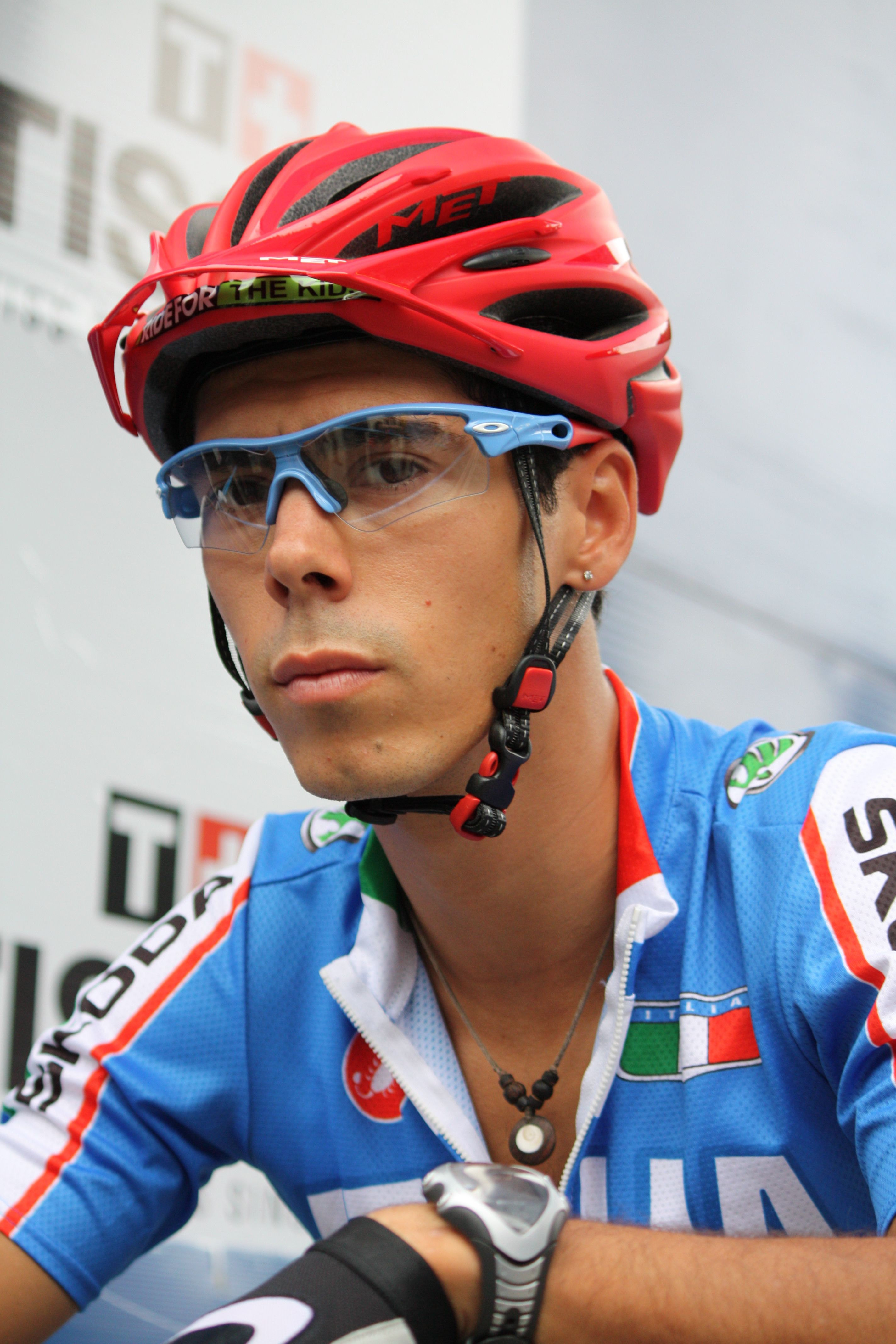 Marco at the 2011 World Championships in Champéry (CH) on september 3rd